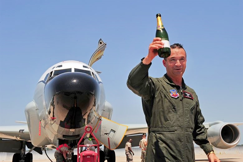 U.S. Air Force Brig. Gen. Donald Bacon, 55th Wing Commander, salutes the men and women attending his fini flight after being hosed down with a fire hose and champagne bottles from family and aircrew June 26 at Offutt Air Force Base, Neb. Fini flights are a common military tribute to the outgoing commander of a military instillation. (U.S. Air Force photo by Josh Plueger/Released)